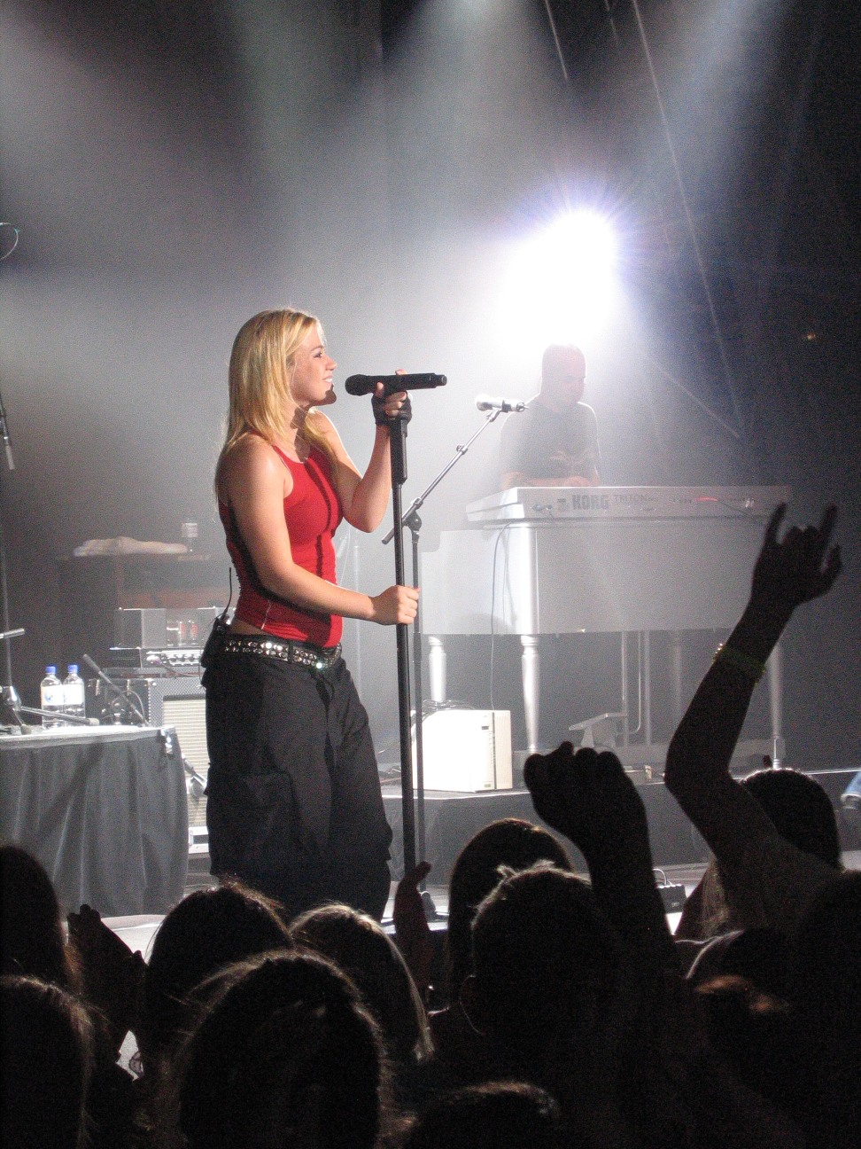 Kelly Clarkson performing her 'Hazel Eyes' concert tour - November 10, 2005 - Geelong, Victoria, Australia